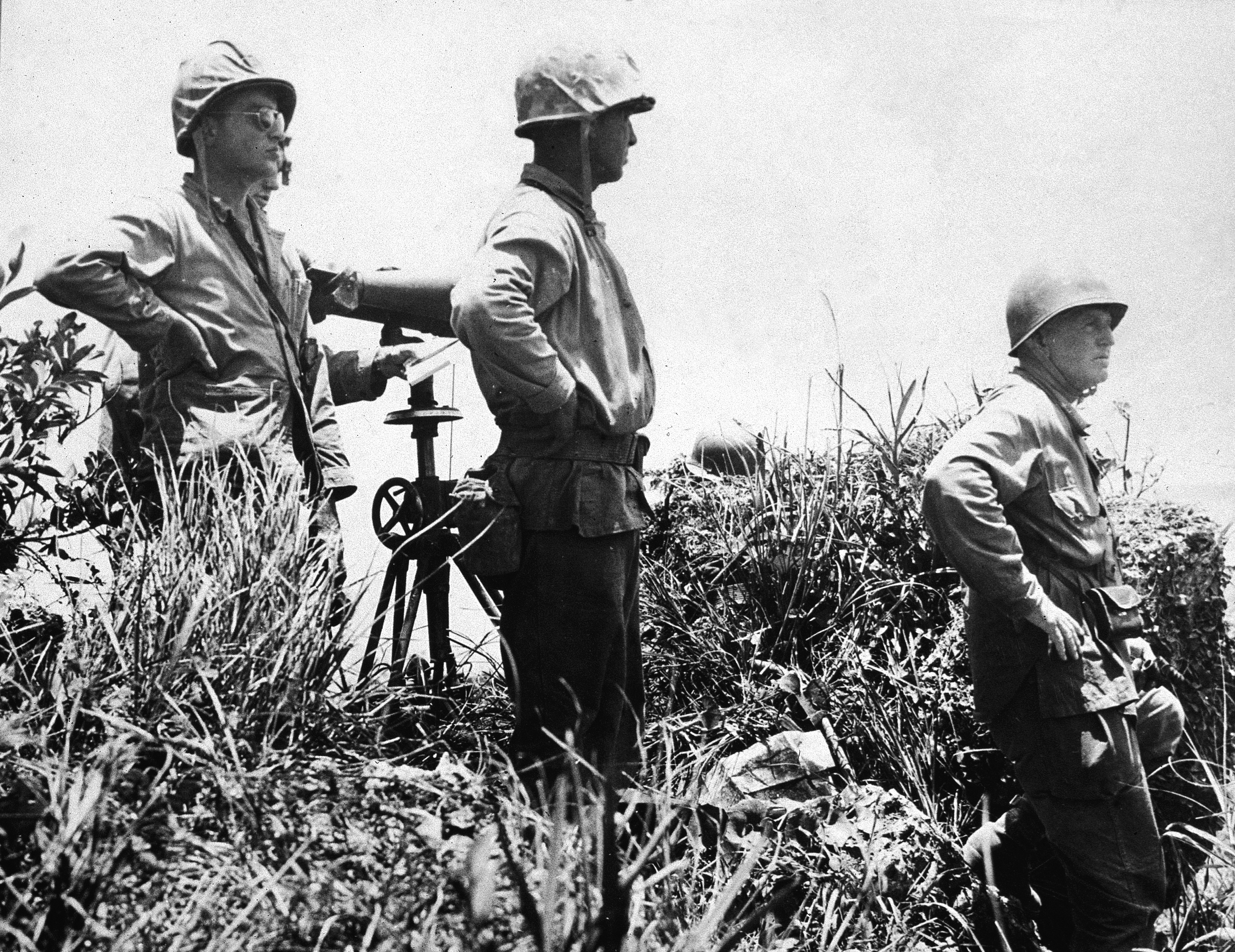 This is the last photograph taken of Lt. Gen. Simon B. Buckner, Jr., USA, right, just before he was killed on 18 June, observing the 8th Marines in action on Okinawa for the first time since the regiment entered the lines in the drive to the south. Note the rock and coral outcropping to his left. The shell that exploded hit that outcropping, dispersing fragments into the general, killing him within a few minutes. The other two staff officers were not seriously hurt.